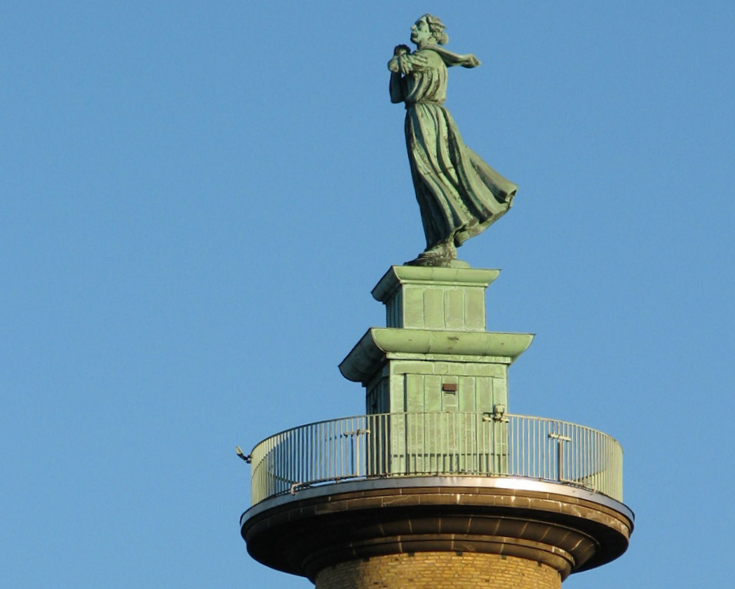 Sjömanshustrun in the harbour of Göteborg waiting for her sailor to come home.